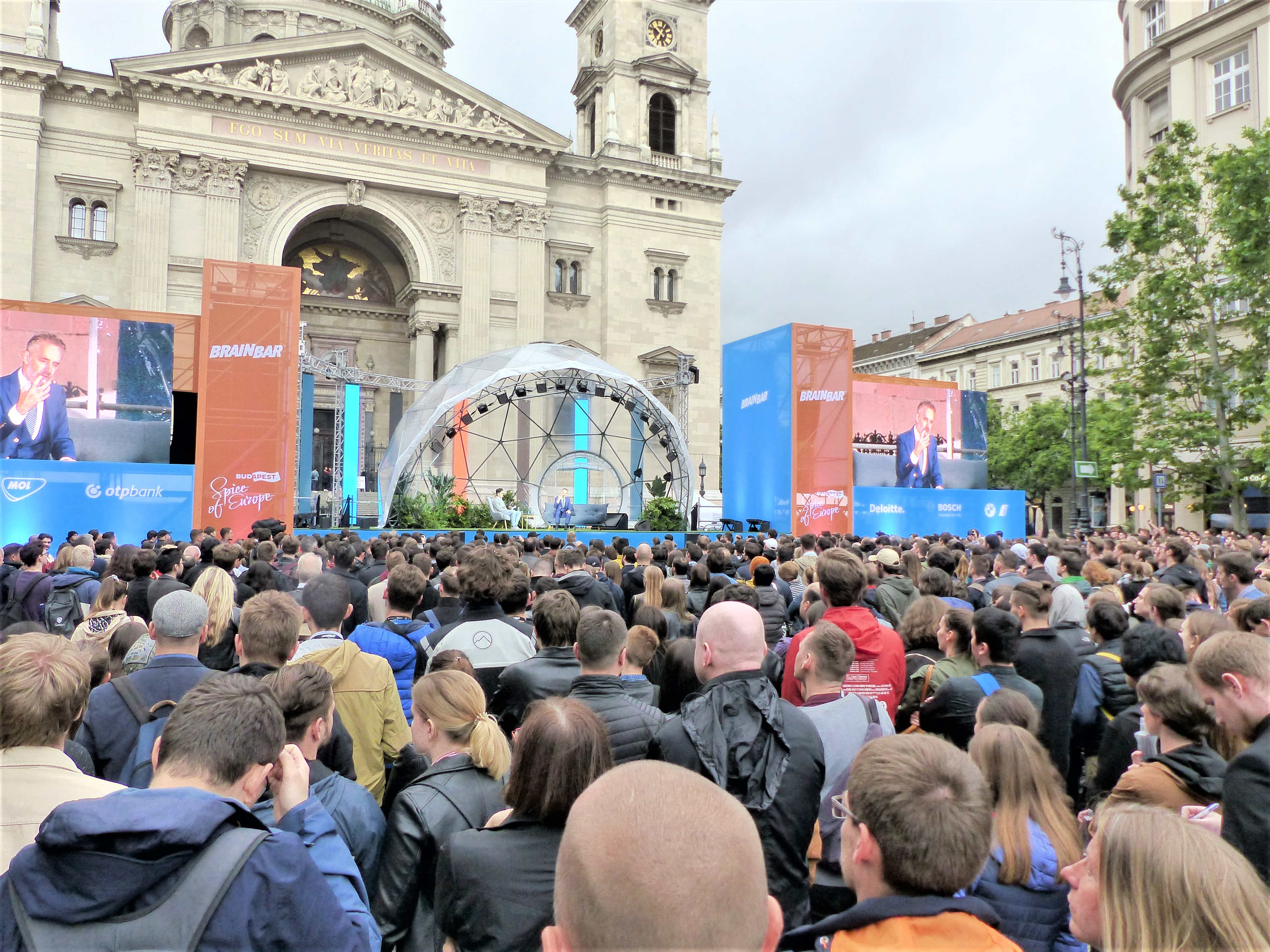 Jordan Peterson. Taken on the 30th of May, 2019. Brain Bar 2019, the first day - St. Stephen Cathedral, Budapest.